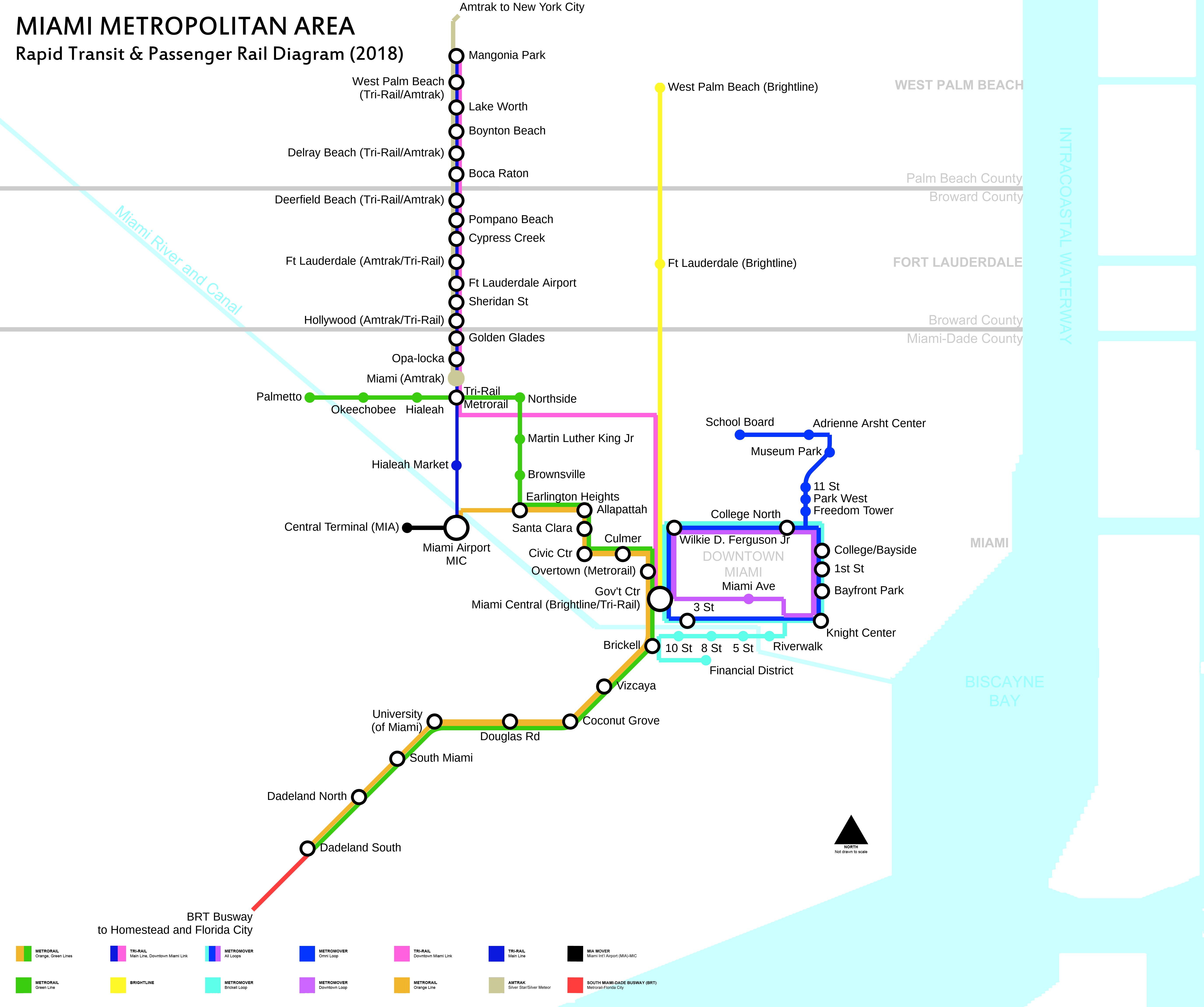 Schematic of rapid transit and passenger rail service in the Miami metropolitan area in 2018. Tri-Rail Downtown Miami Link and Brightline scheduled to be operational by the end of the first quarter of 2018.